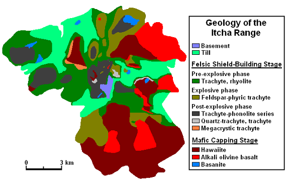 Geology of the Itcha Range in British Columbia, Canada